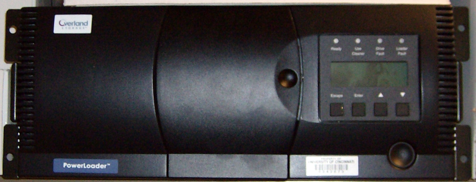 A PowerLoader tape backup from Overland Storage